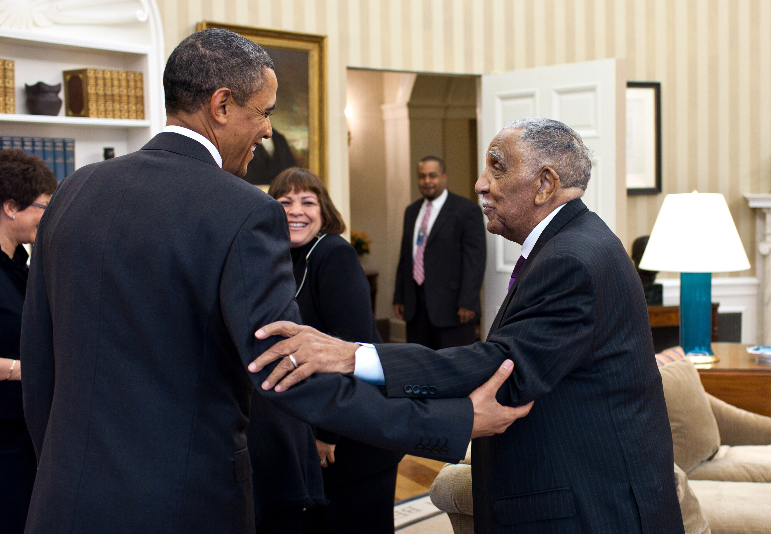 President Barack Obama meets with civil rights movement leader Rev. Dr. Joseph Lowery and his family in the Oval Office, Jan. 18, 2011. (Official White House Photo by Pete Souza)